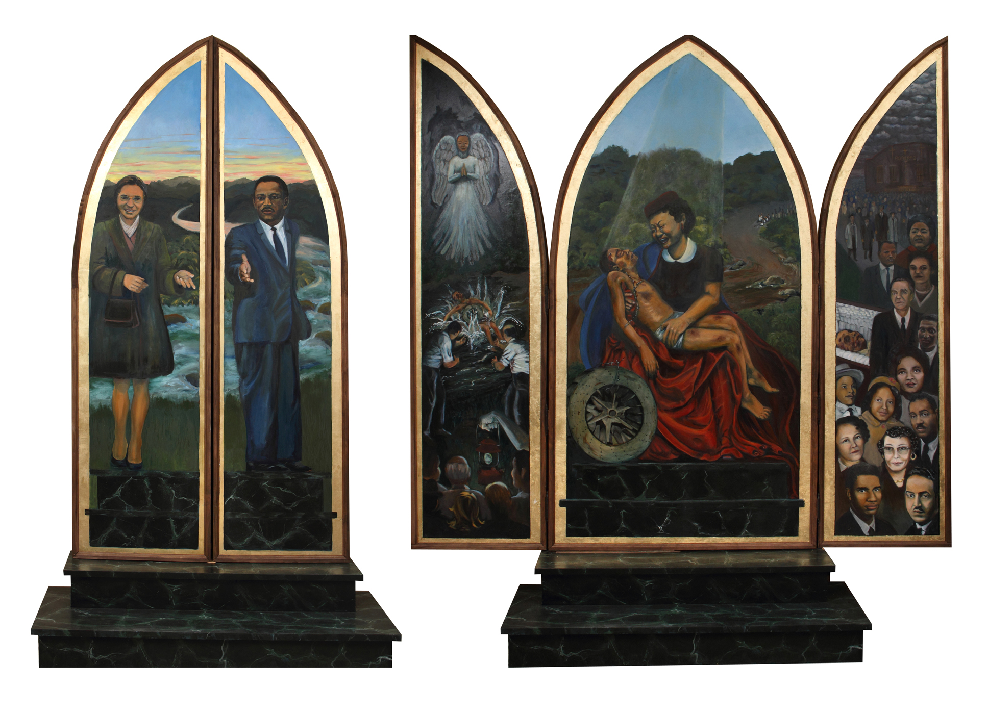 The Emmett Till Memorial Triptych by artist, Sandra Hansen.